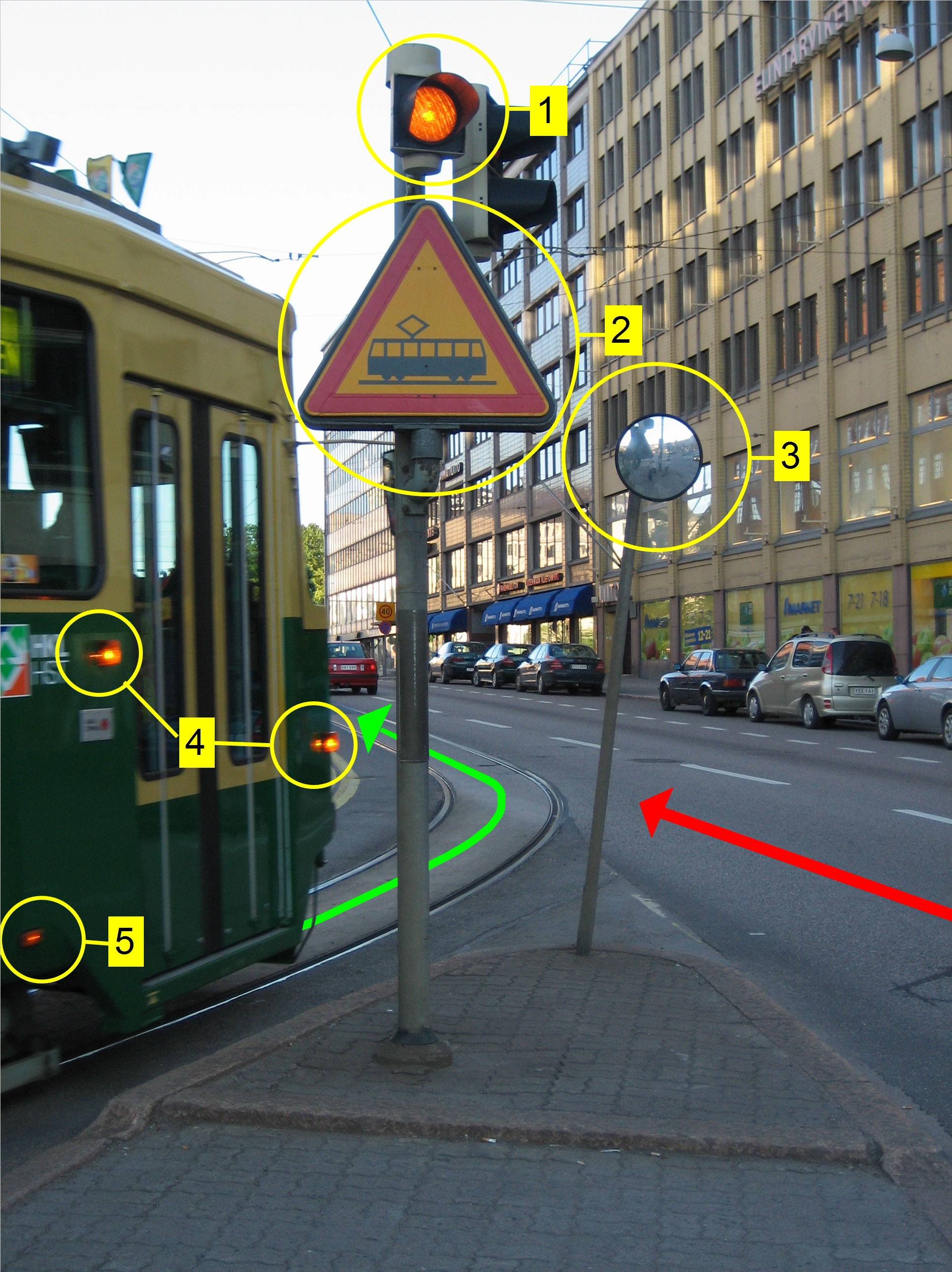 Safety measures when a tramway track merges with a vehicle lane